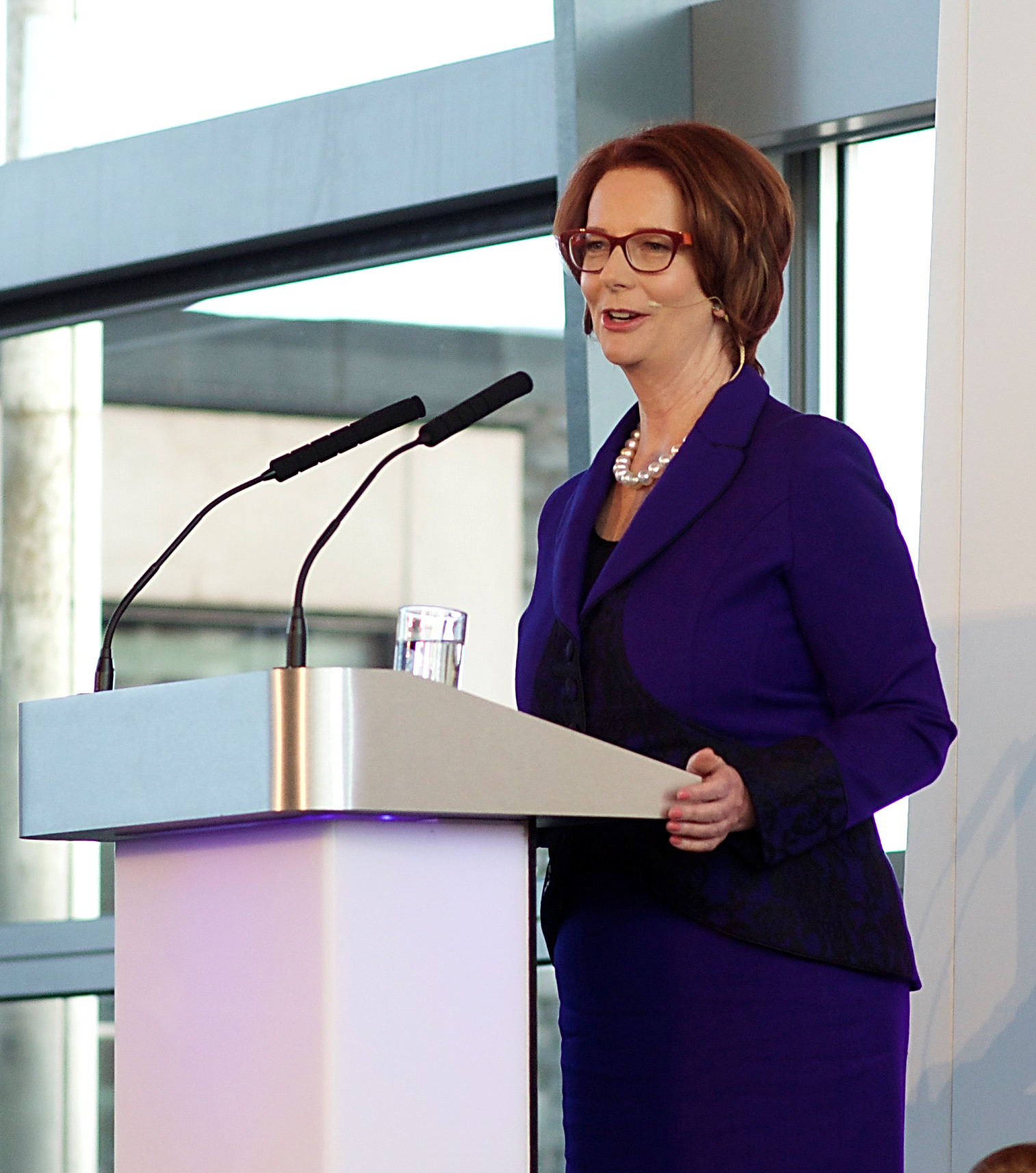 Former Prime Minister of Australia, Julia Gillard, delivers a keynote speech on the representation of women in public life at the National Assemby for Wales, in July 2015. Image sharpened, and cropped.